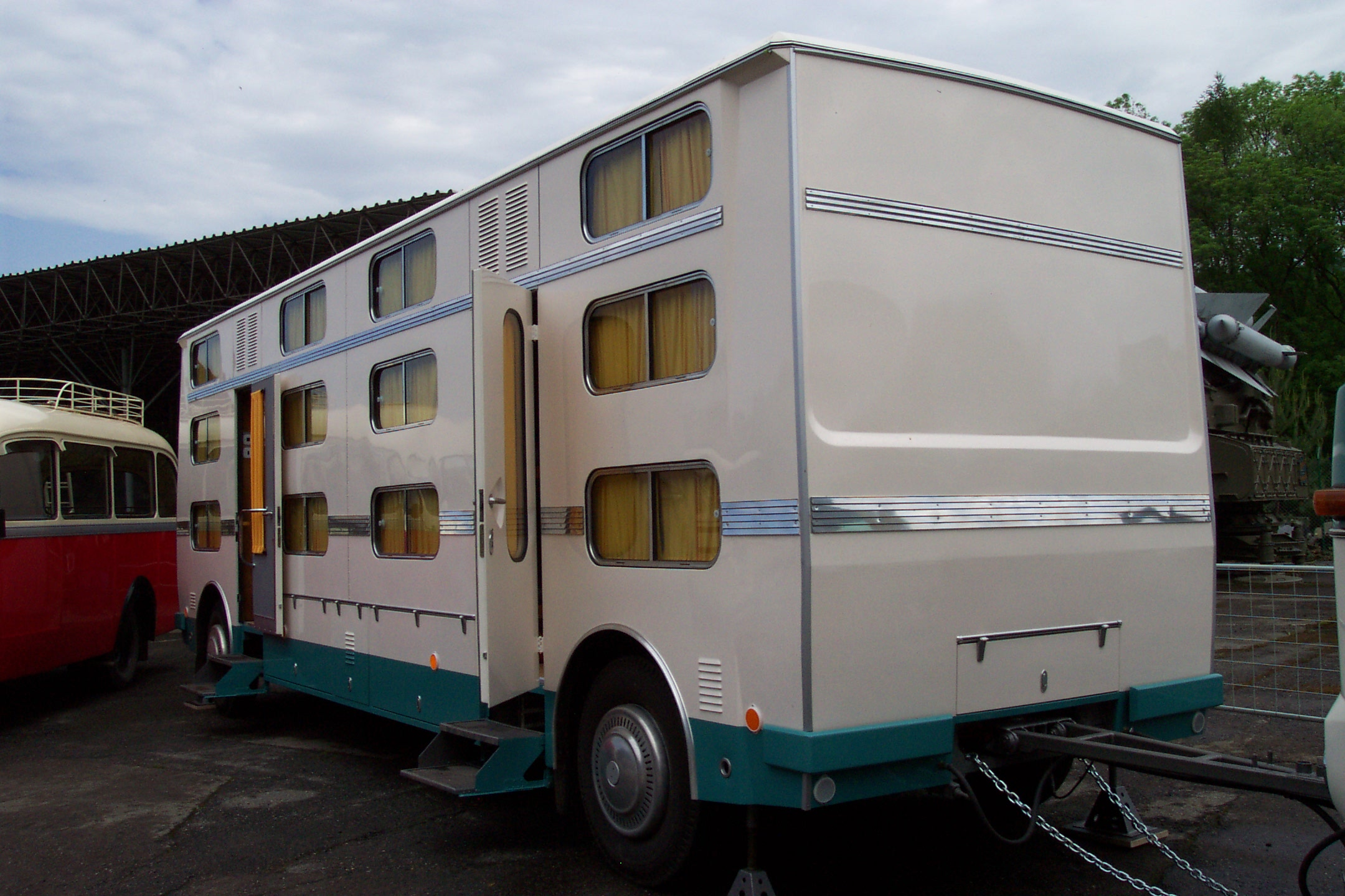 Renovated bus type Karosa ŠD 11, of the company of ČSAD Jihotrans with trailer - Rotelbus, the special trailer sleeping car, back side of the rotelbus module.